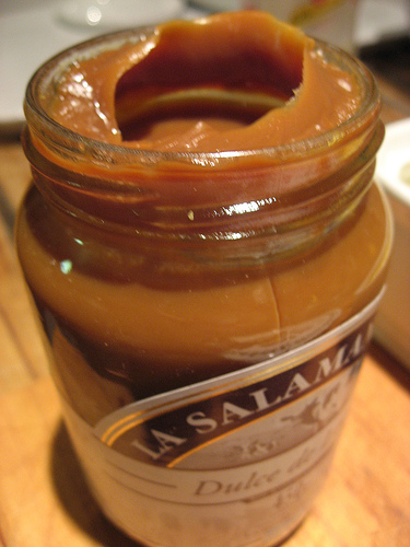 A bottle of dulce de leche.